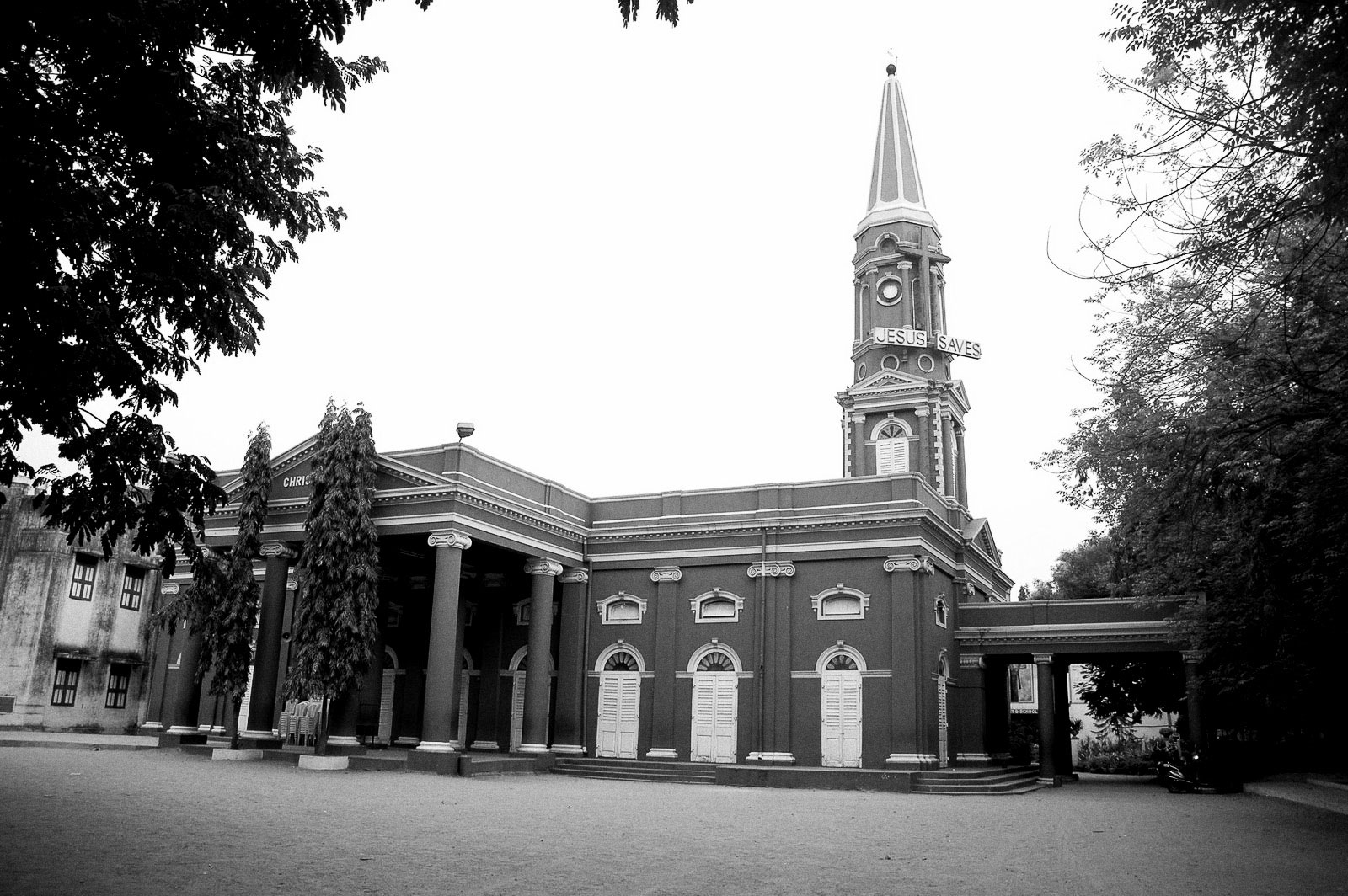 The Photograph of Christ Church Anglo-Indian Higher Secondary School, Chennai